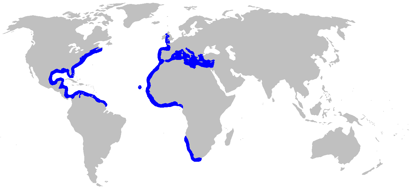 Range of the Atlantic torpedo (Torpedo nobiliana). Based on [1]